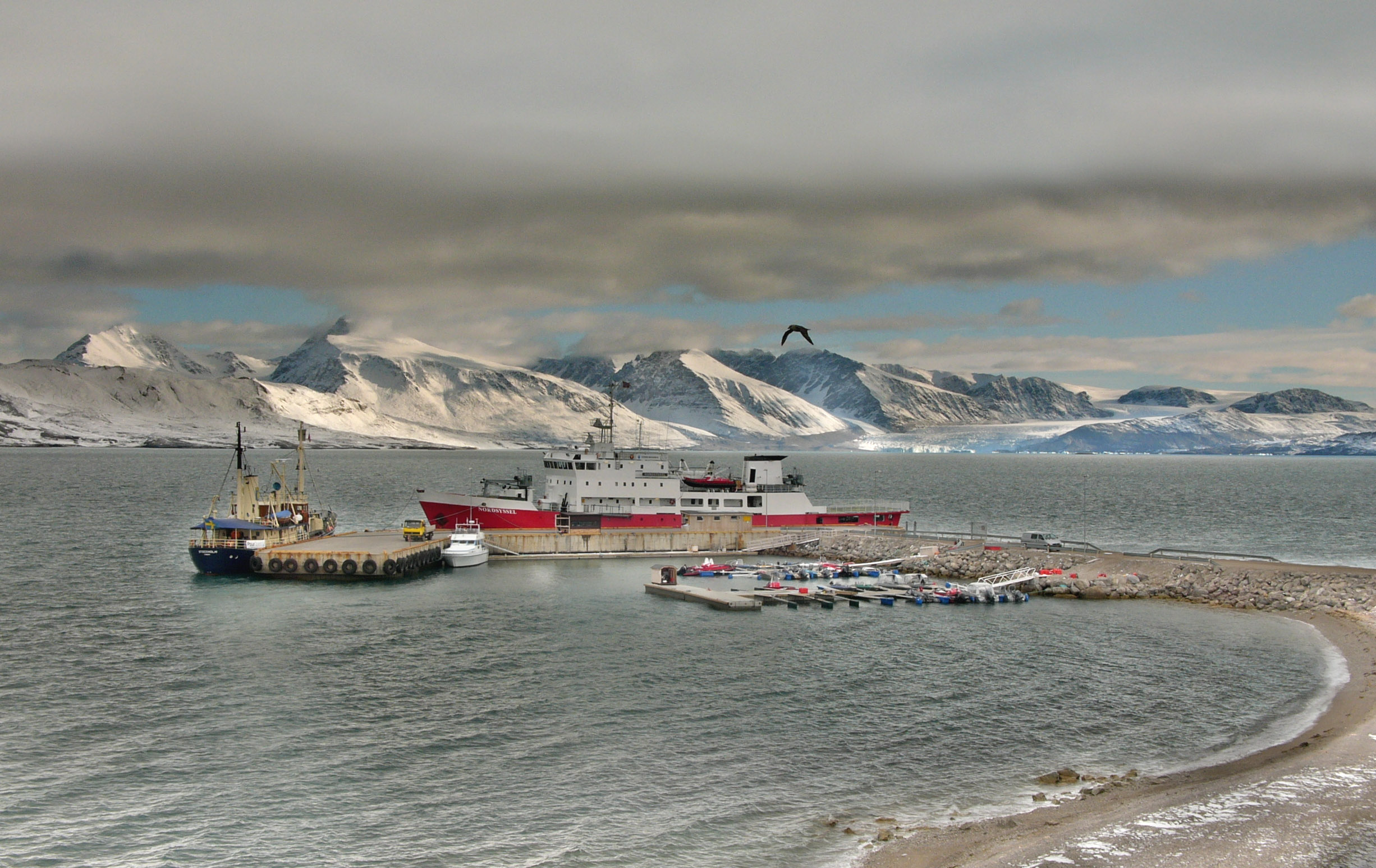 NORDSYSSEL, the ship of the Sysselmann on Svalbard, towed to the pier of Ny Alesund, Spitzbergen.